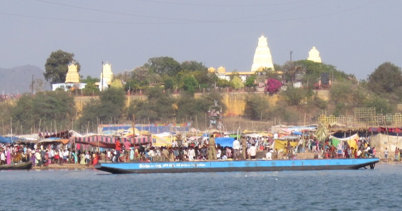 veerabhadraswami temple,pattisam,west Godavari dist,Andhra Pradesh,India